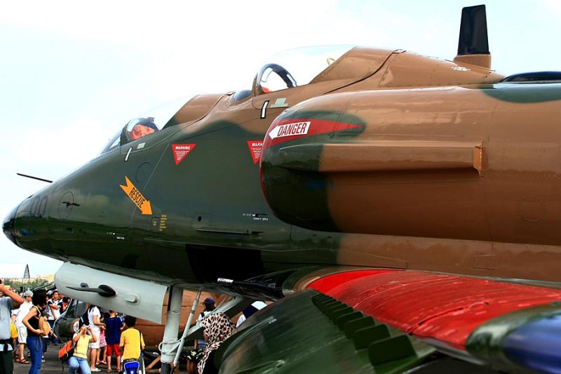 Stepped cockpit layout/close-up of the Douglas/ST Aerospace TA-4SU Super Skyhawk trainer. Note the row of vortex generators on the drooped leading edge slats as well as the Ram-air intake mounted on the portside for cooling the jet engine, this was a unique feature for all T/A-4SU Super Skyhawks. Note also the chrome-plated muzzle brake of the Colt Mk.12 cannon.